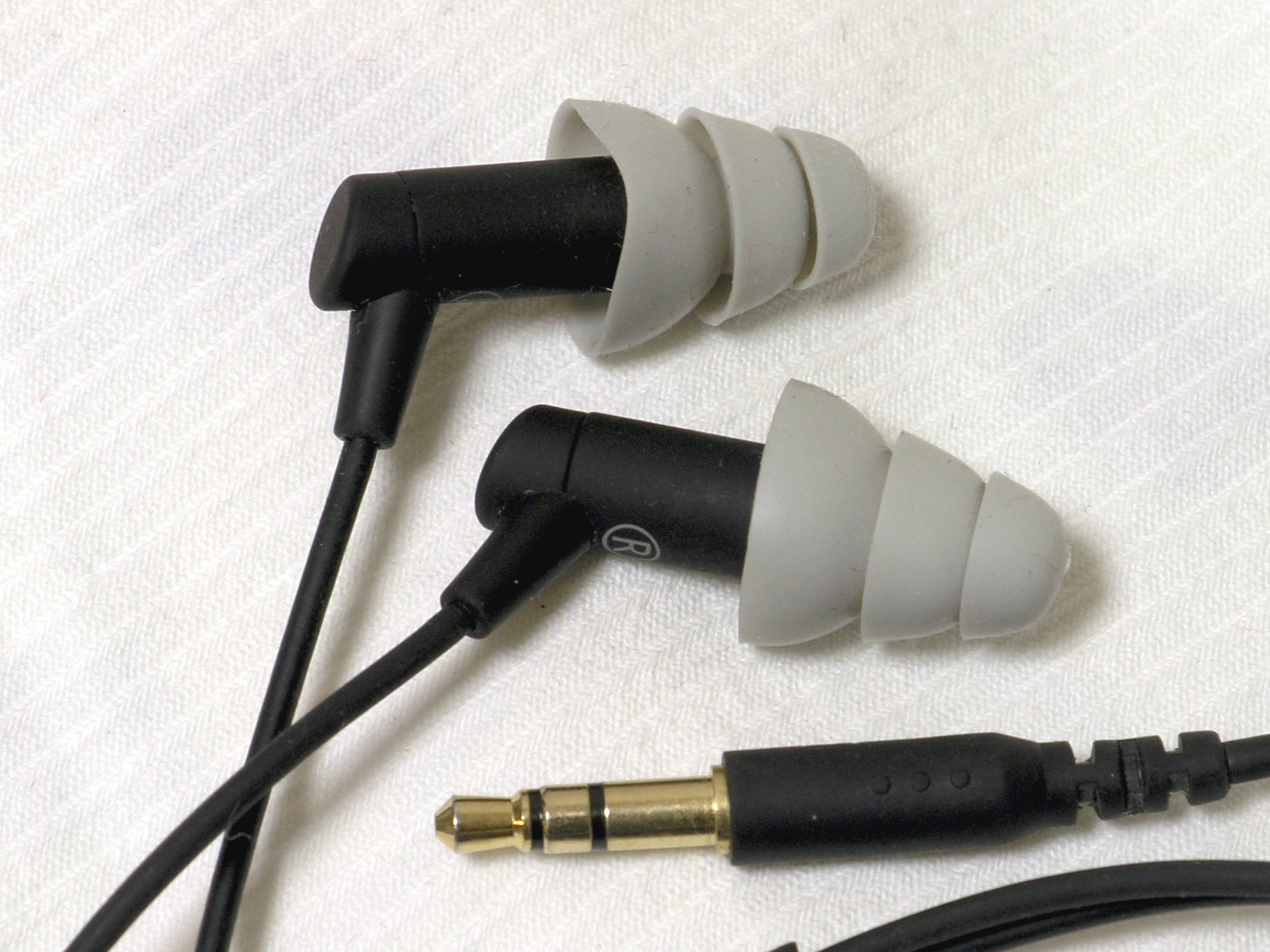 Etymotic Research Hf5